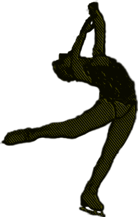 A cropped and colorized image of Angela Nikodinov performing a layback spin at the 2004 Four Continents Championships in Hamilton, Ontario, Canada. This image is meant to be used to illustrate the layback spin position.